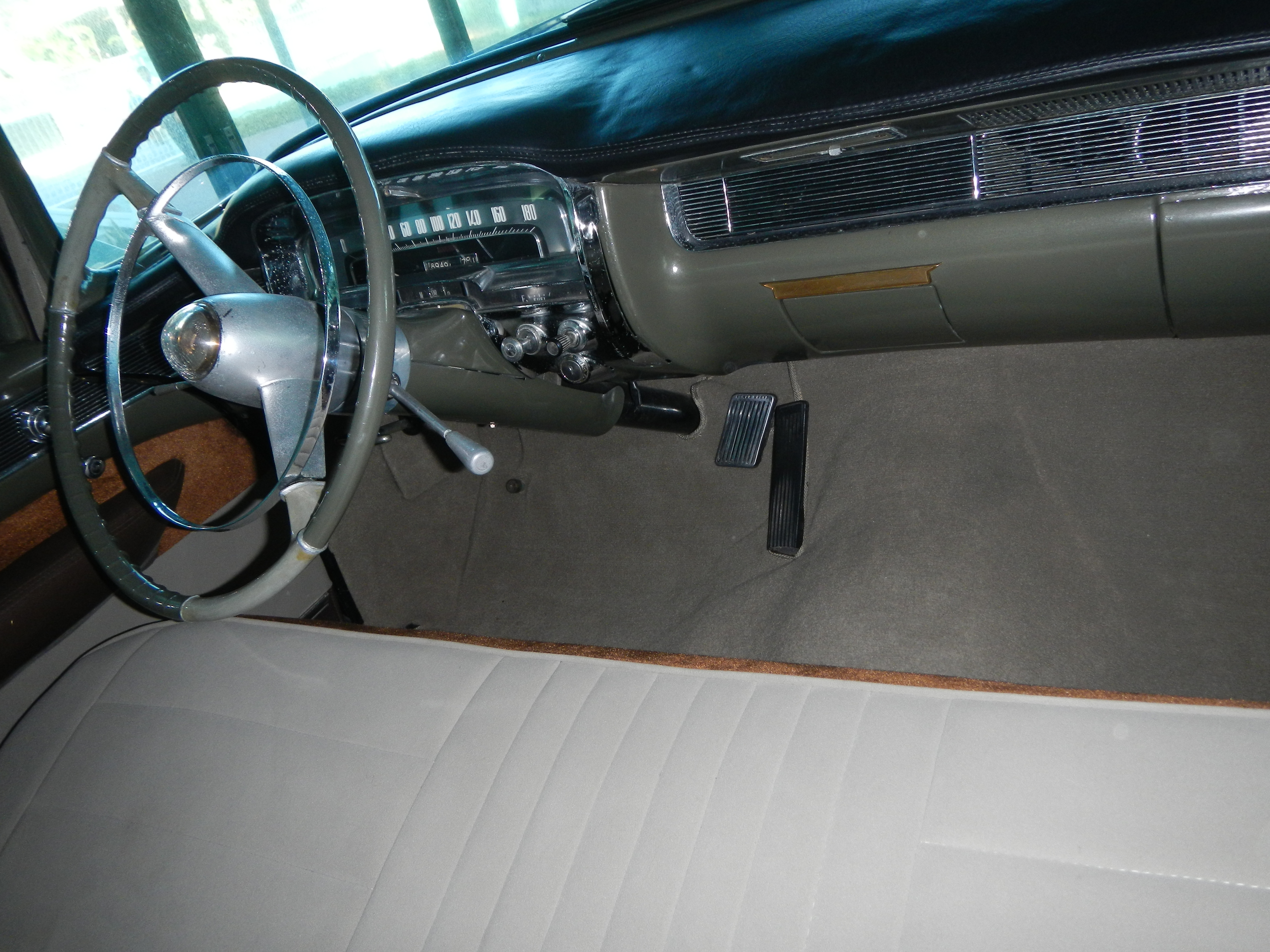 President Ramon Magsaysay Ancestral House, located at Castillejos, Zambales is the ancestral of the seventh Philippine President Ramon Magsaysay. It is open for public viewing. With traces of the past, the Magsaysay residence is was the former leader of the Philippines grew up. This structure houses some of the personal belongings of the late president, from his furniture, appliances, clothing, medallions, and books, to his 1945 Cadillac limousine, and a Willy’s Jeep said to be in good running condition. [1][2][3]Location: Castillejos, Zambales (Region III) Category: Building Type: House, NHCP Museum Status: National Historical Landmark[4][5] Castillejos, Zambales[6] Ramon Magsaysay[7]